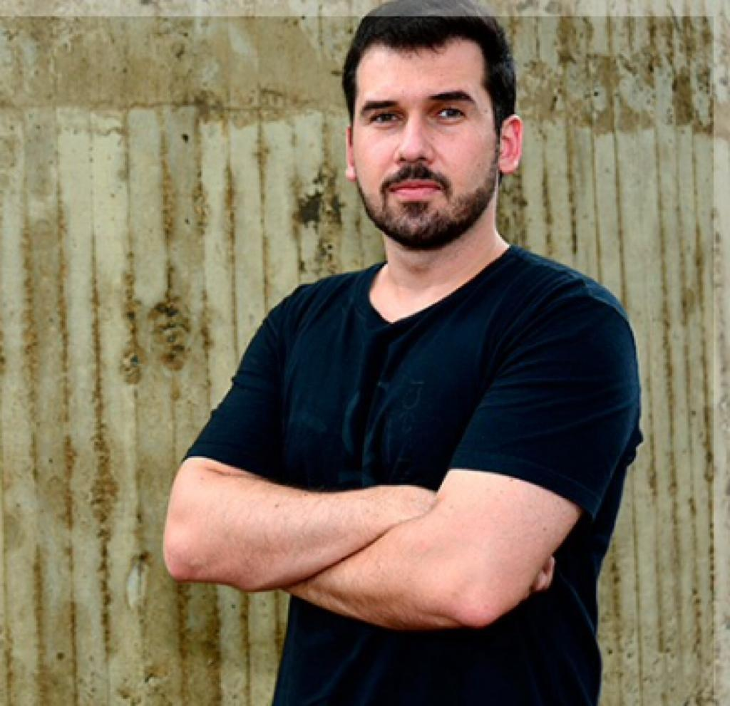 Professor Bruno Brandão Fischer